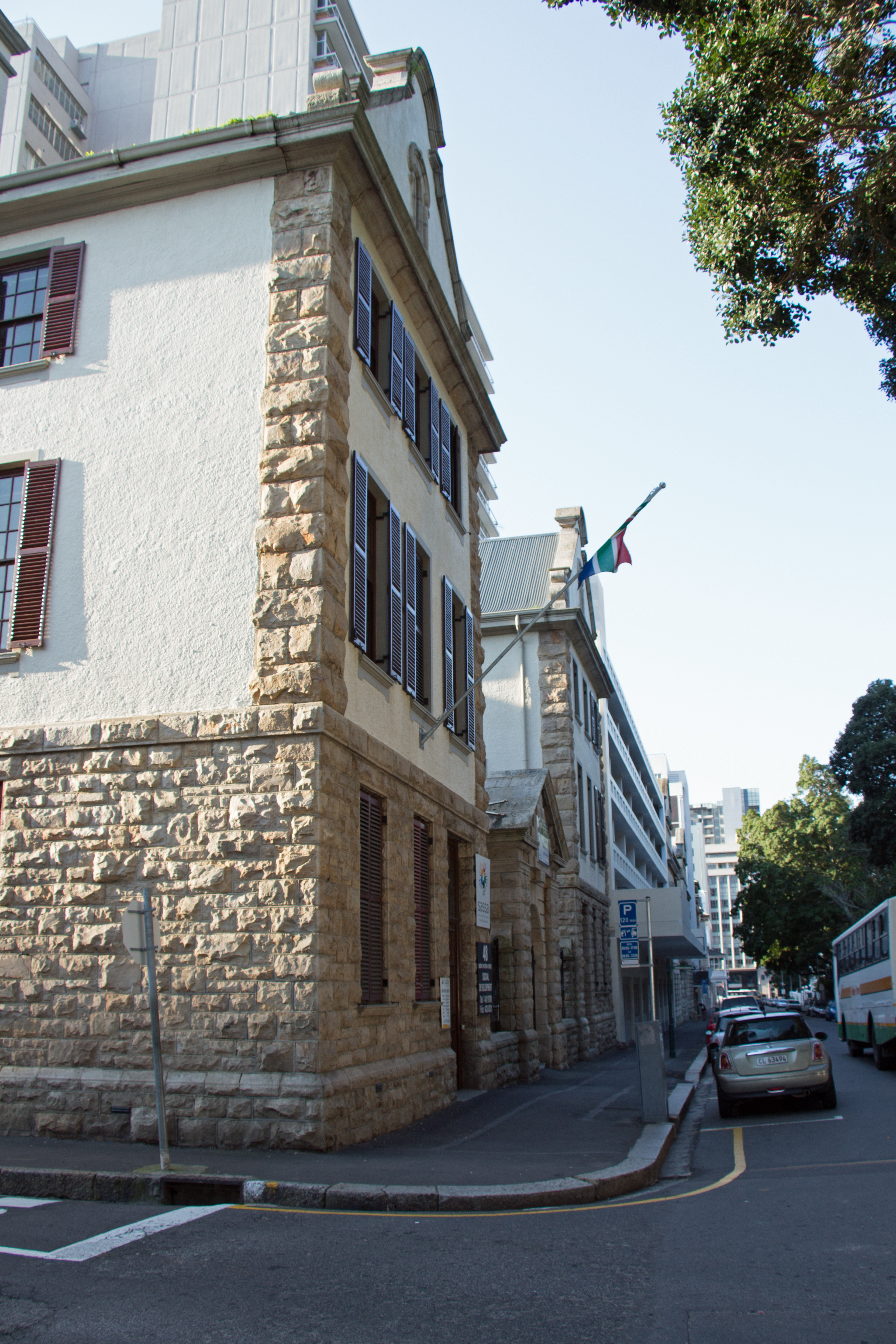 Huguenot Memorial Building, 48 Queen Victoria Street, Cape Town This media shows a South African Protected Site with SAHRA file reference 9/2/018/0196.